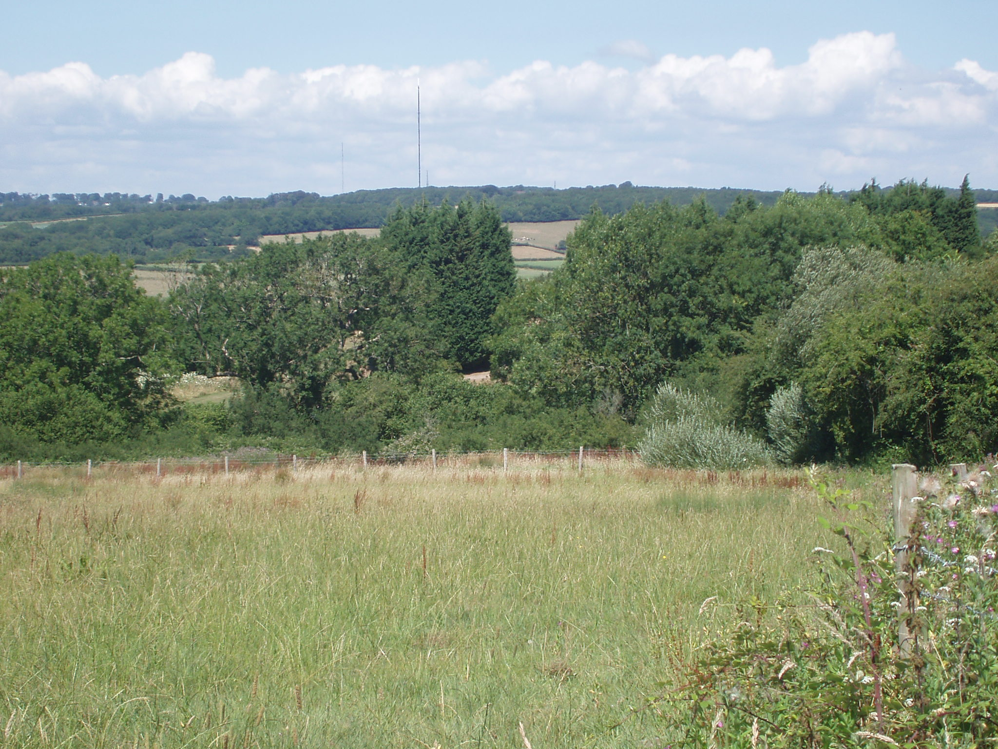 The Wenvoe HTV transmitter seen some 6 miles away from the Vale of the Glamorgan, Barry in south Wales, UK.